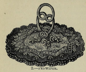 An illustration of a pen wiper, a handicraft commonly sold at charity bazaars